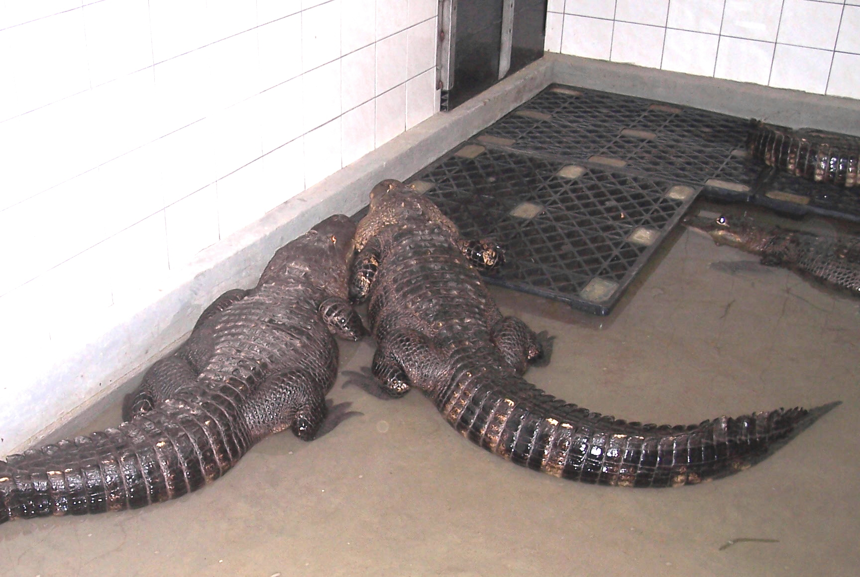 Velký Karlov in Znojmo District, Czech Republic. Crocodile farm.